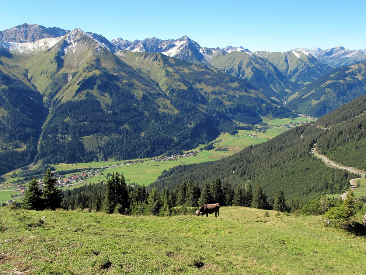 Region "Außerfern", Valley "Zwischentorental" with Hamlets Lähn and Wengle